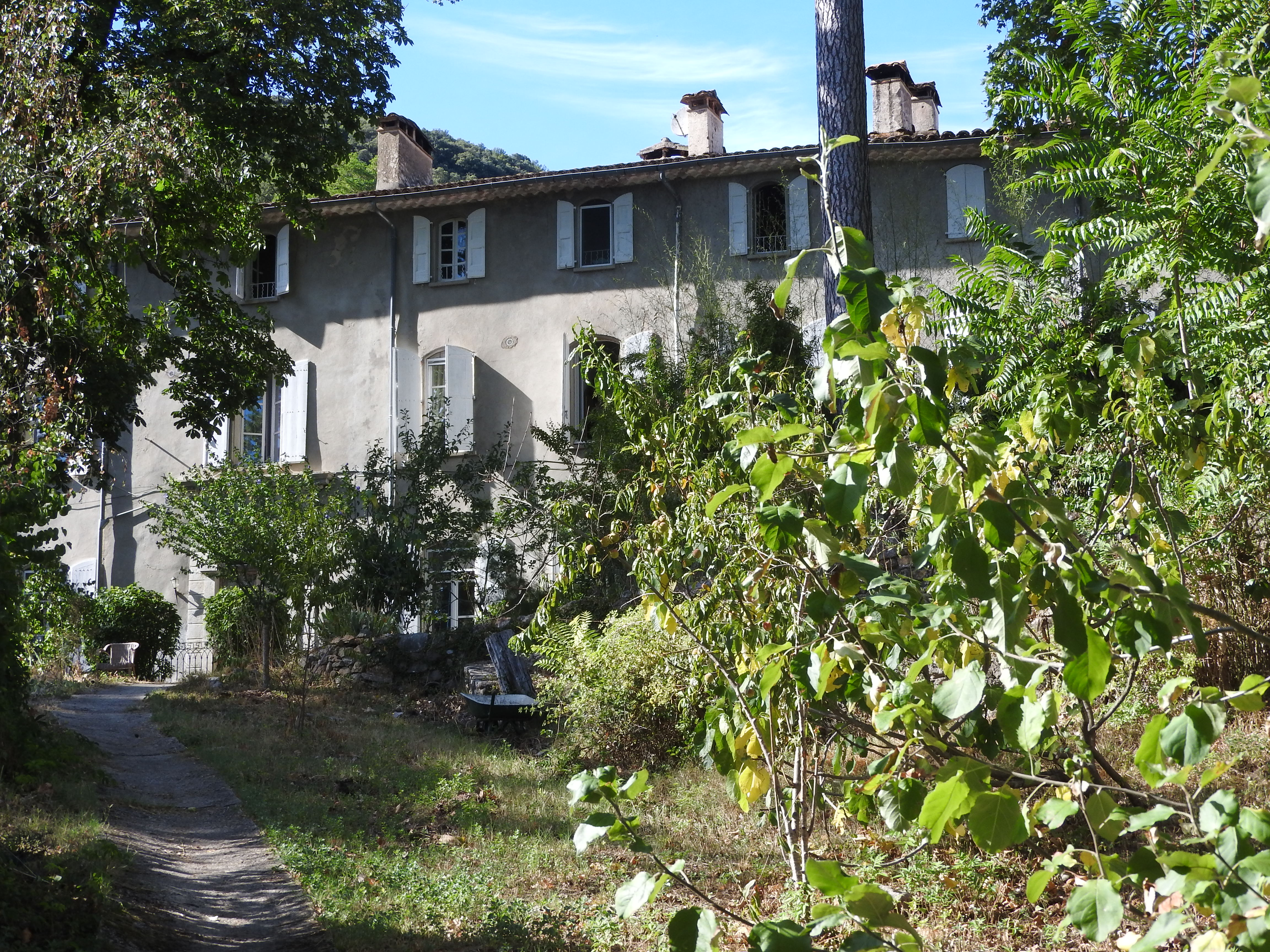 Chateau de Maléragues is the home of the Roy Hart Theatre Company. It is run as an SCI. They use the chateau, houses in the surrounding hamlet and the landscape to form natural performance spaces.